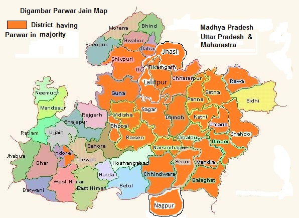 Map of district having large Digambar Parwar Jain Community